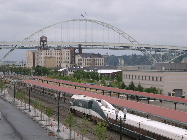 Amtrak Cascades awaiting departure at Portland Union Station. The Fremont Bridge is in the background.